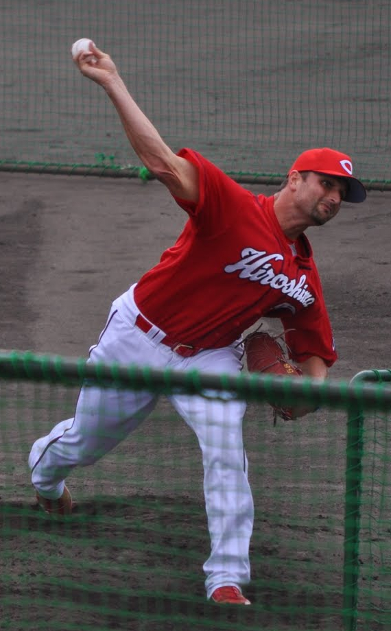 Dennis Sarfate, pitcher of the Hiroshima Toyo Carp, at Okinawa Municipal Baseball Stadium.